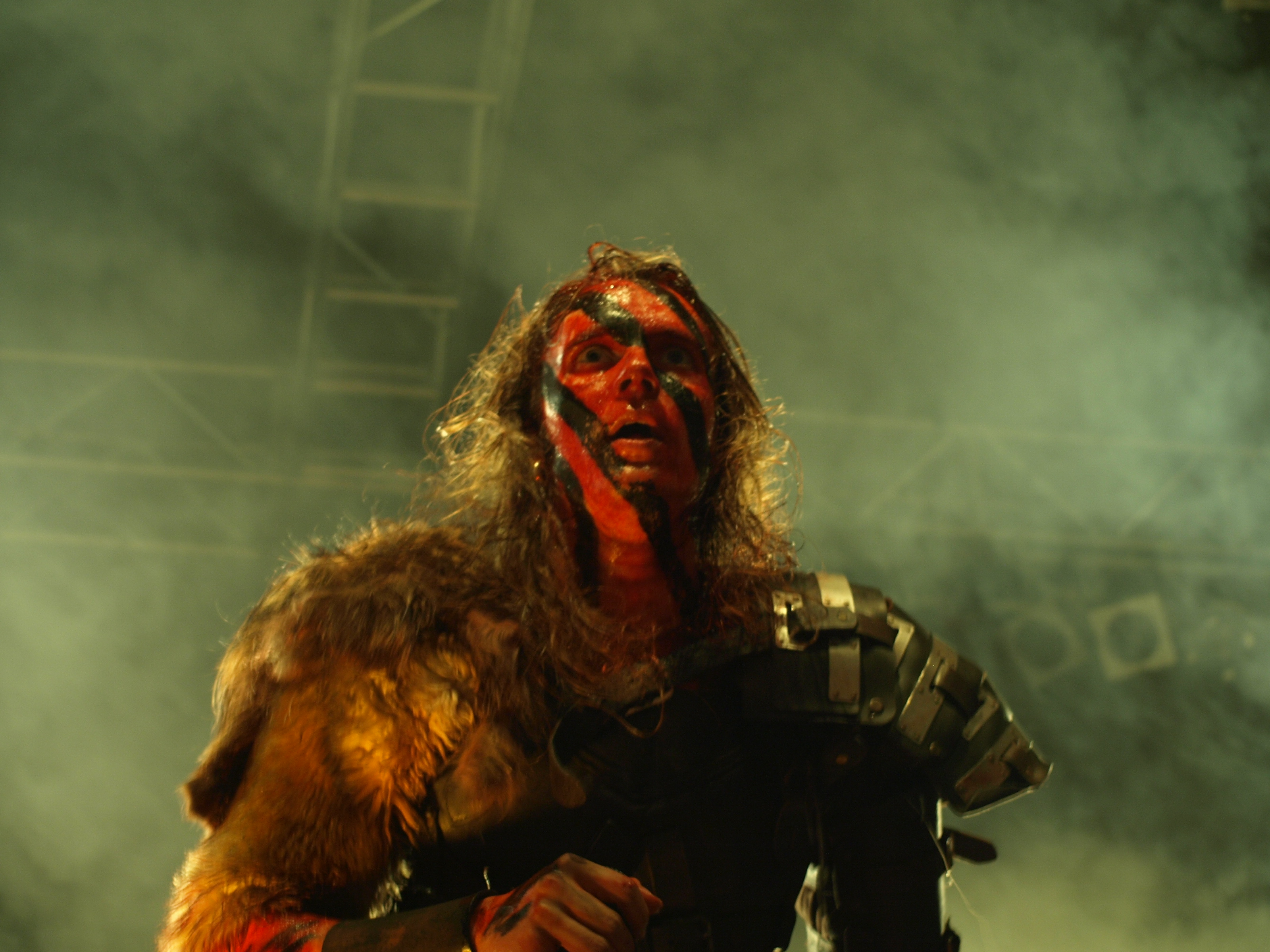 Finnish metal band Turisas live at Jalometalli 2008 in Oulu.